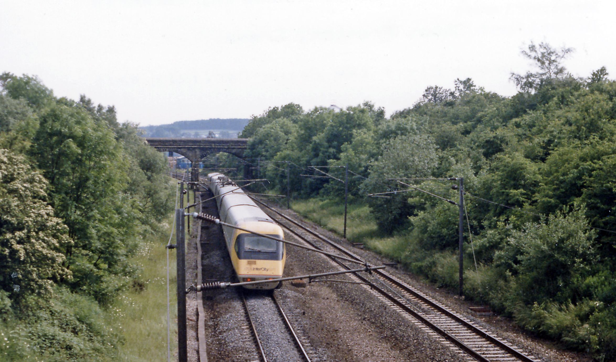 BR Advanced Passenger Train southbound approaching site of Clifton & Lowther station, View southward, towards Lancaster, Preston, Crewe etc.: ex-LNW WCML. This was one of the last trials of the APT-P, the precurosr of the 'Pendalinos' which never came into regular service. The station was closed to passengers on 4/7/38, to goods on 1/6/51.